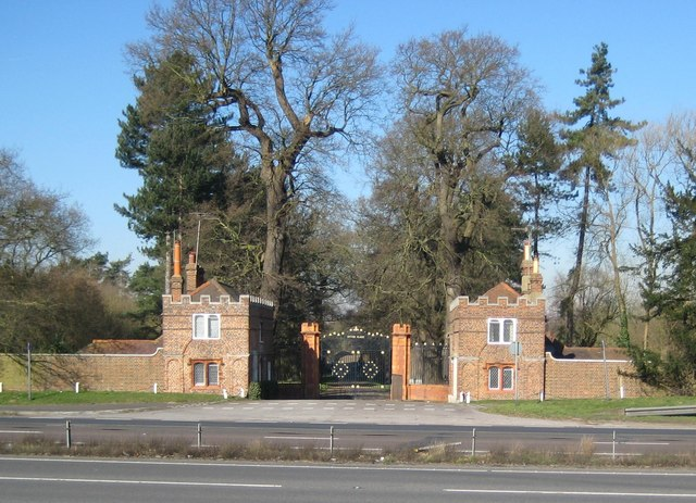 Sutton Place: East Lodge gates Sutton Place is a Grade I listed Tudor manor house It was built in 1524 and was given by Henry VIII to a courtier, Sir Richard Weston, in return for condemning Lord Buckingham to death. The estate has had a string of famous owners including Jean Paul Getty who spent the last 25 years of his life there before his death in 1976. The estate is currently reputedly owned by Alisher Usmanov, the Russian billionaire who has bought a large financial stake in Arsenal FC. These are the lodges at the eastern entrance to the estate on the A3 London Road, and, I am speculating, this may have been the main entrance to the estate in former times. This view was taken looking across the A3 from the footpath on the far side.